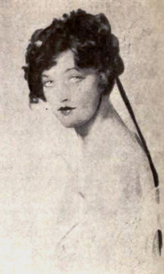 Sketch of actress Marion Davies by Penrhyn Stanlaws, on page 74 of the May 21, 1921 Exhibitors Herald.